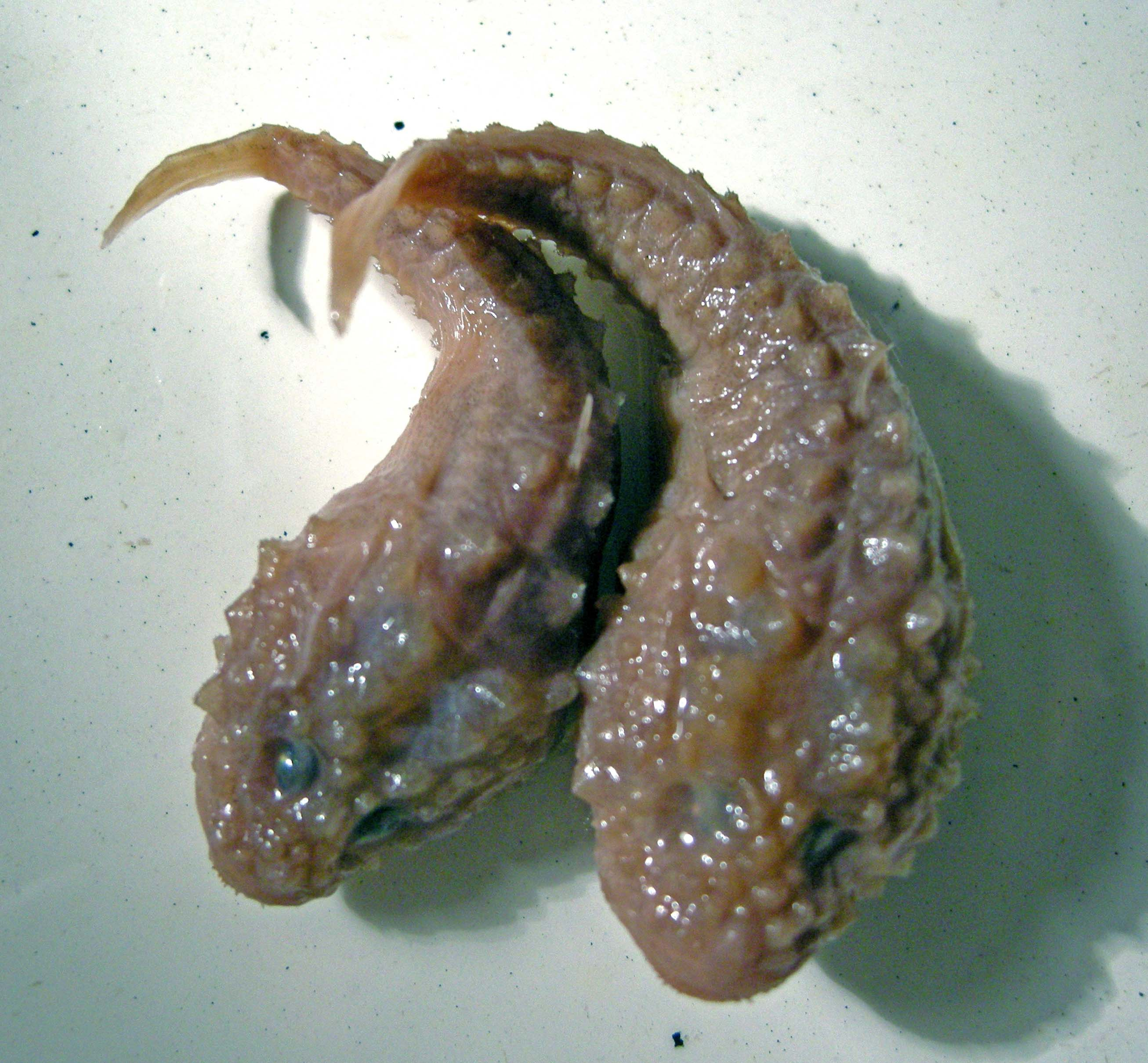 Baer pugolovka (Benthophilus baeri), Caspian Sea. Specimens from the personal collection of Vasily Boldyrev, Volgograd Division of the State Institute of Lake and River Fisheries, Russia.